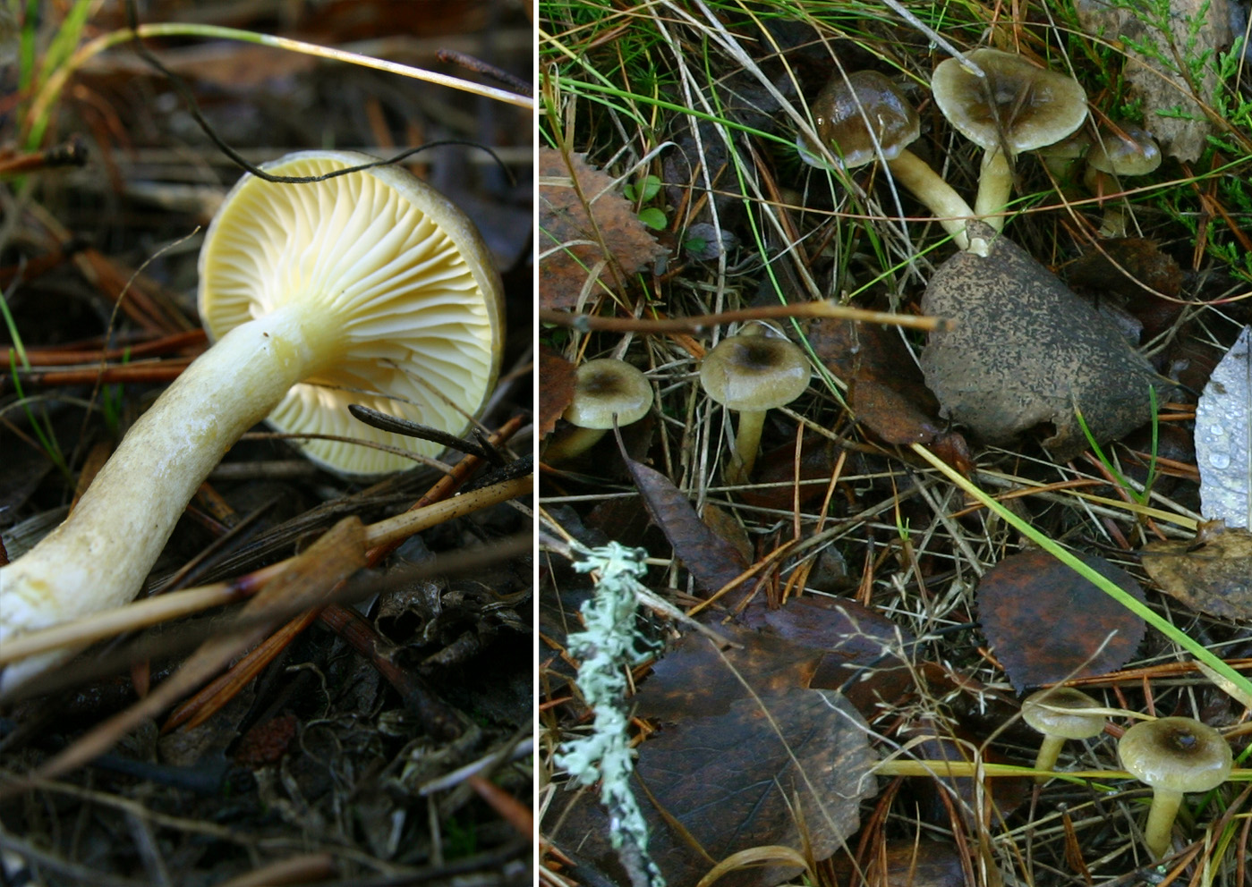 Hygrophorus hypothejus (Finnish: hallavahakas) mushrooms next to a forest road in Oulu, Finland, on 15th October 2006. A bottom view of a single mushroom has been edited into the picture.